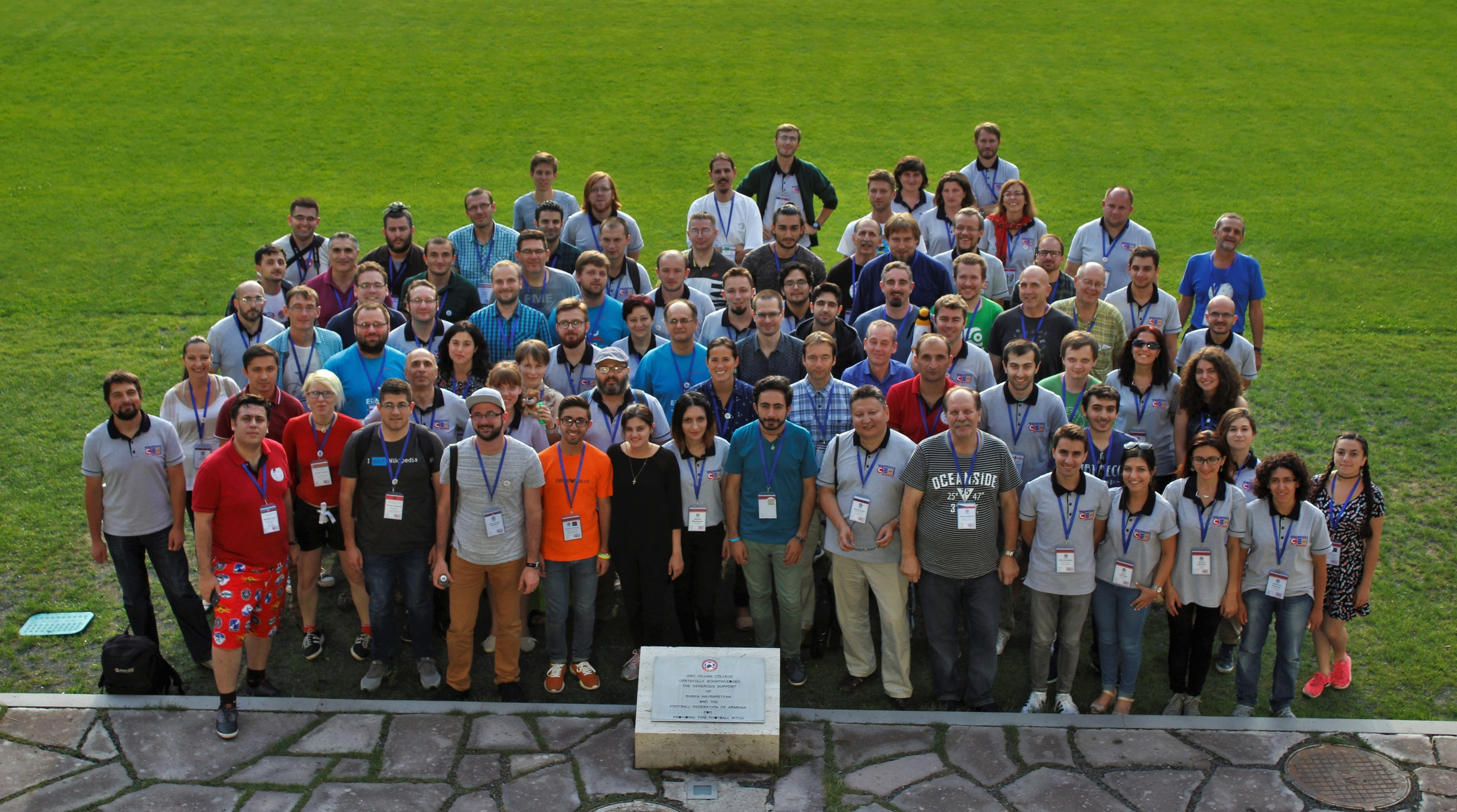 Wikimedia CEE 2016 group photos in UWC Dilijan, Armenia (2016-08-29)